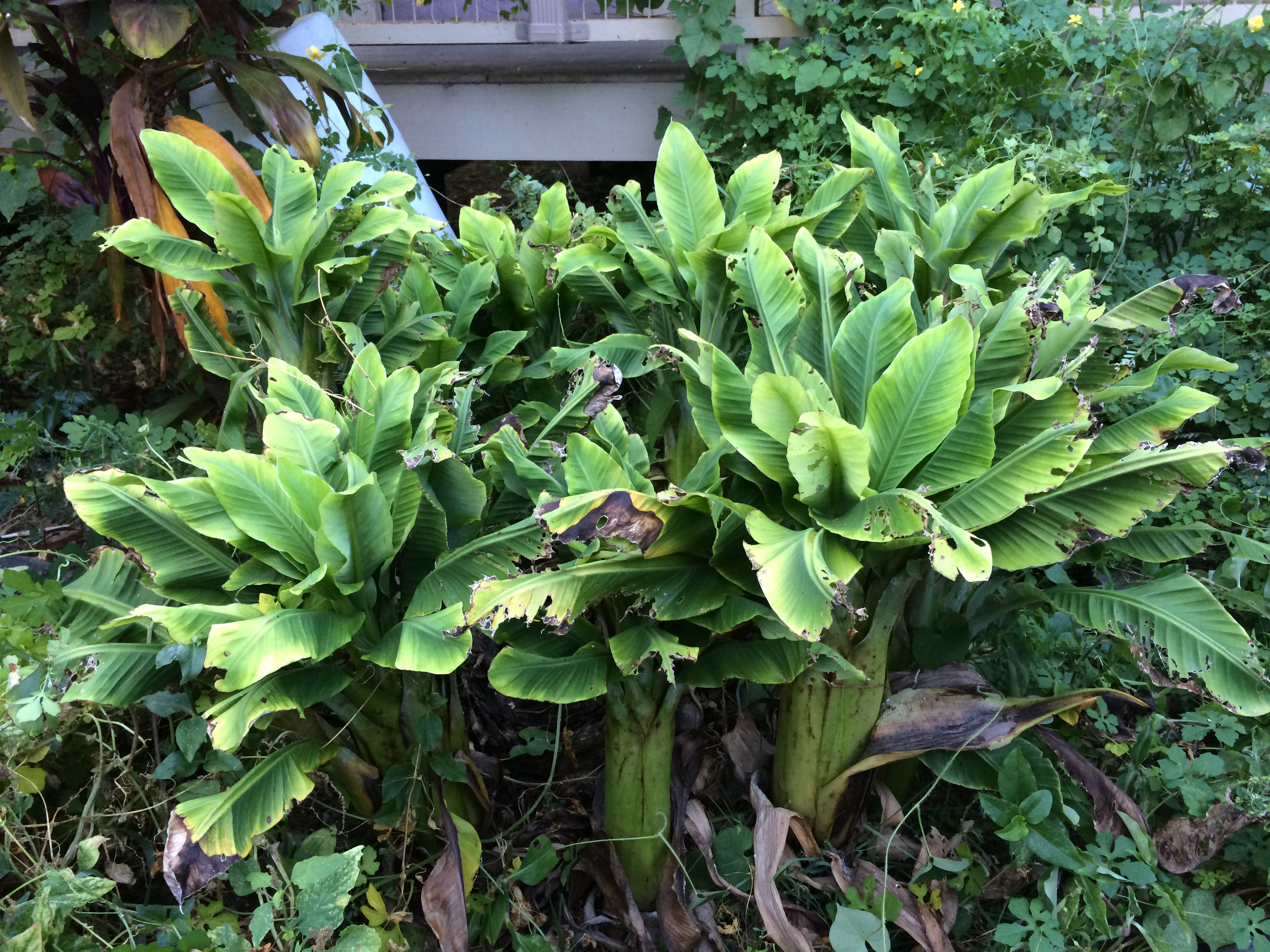 Hosts: Musa spp. | These plants arose from the pseudostem of a central, infected mother plant that was cut down | Read